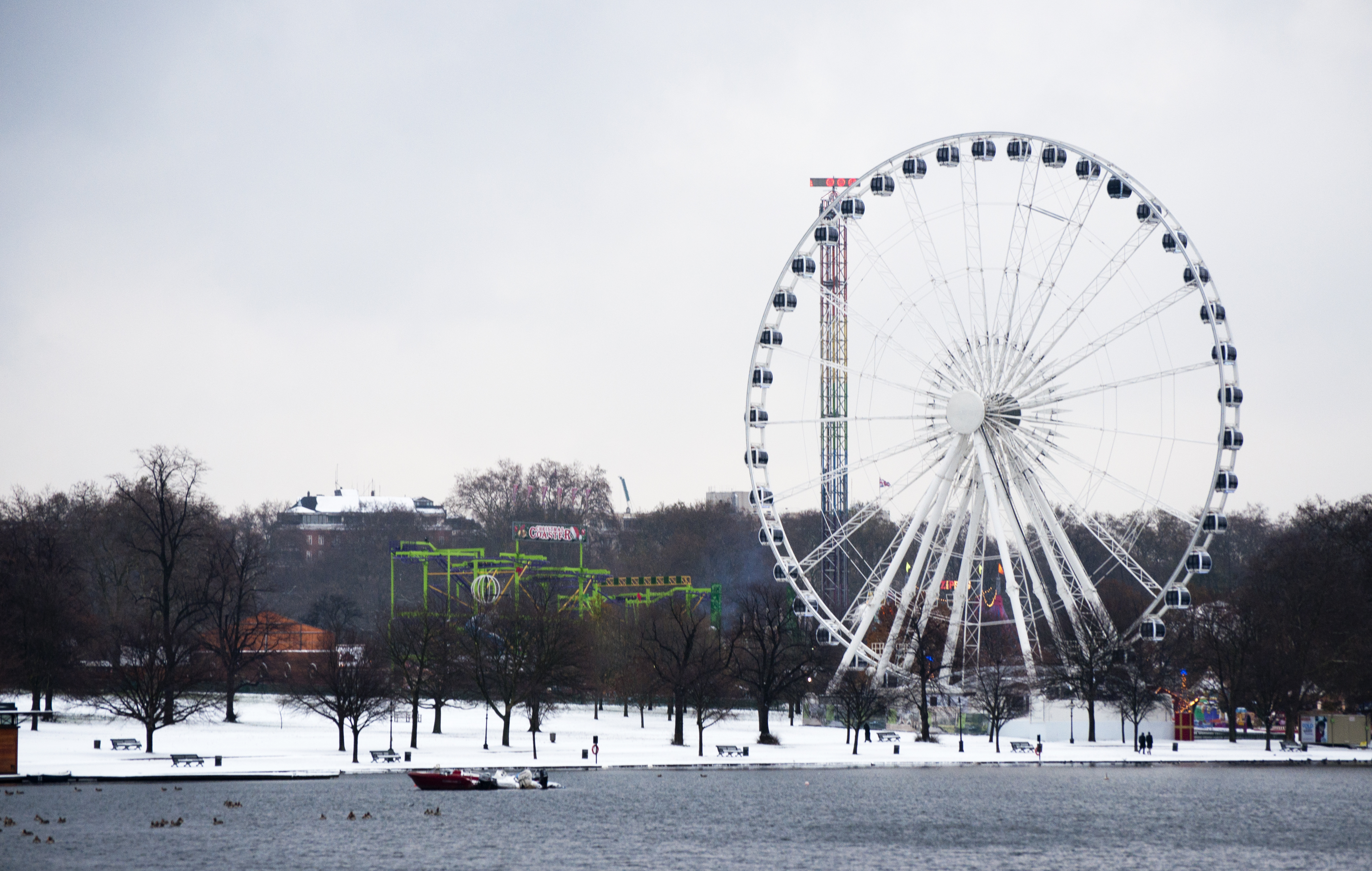 winter wonderland, Hyde Park, winter, snow, seasons, cold, City of Westminster